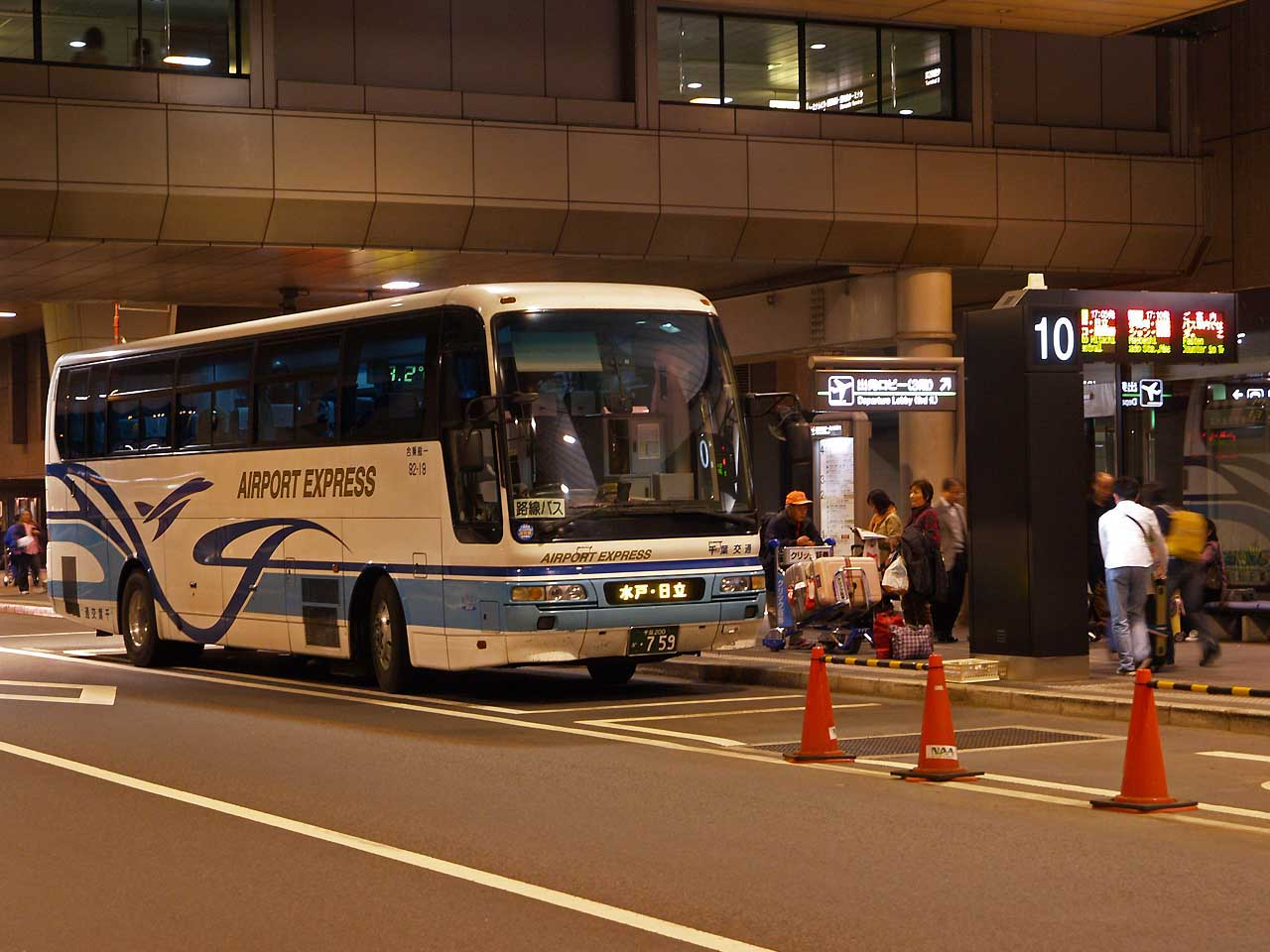 "Rose Liner", Narita airport shuttle bus, bound for Mito, Hitachi-naka and Hitachi, Ibaraki. Model: Mitsubishi Fuso Aero Queen I KL-MS86MP License plate: CBC200 KA-759 Place: Narita International Airport